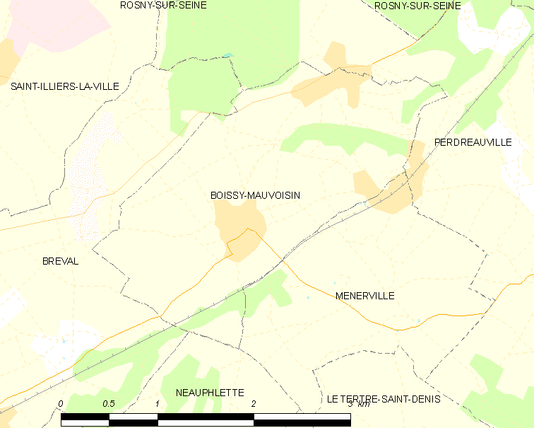 Map of French municipality Boissy-Mauvoisin